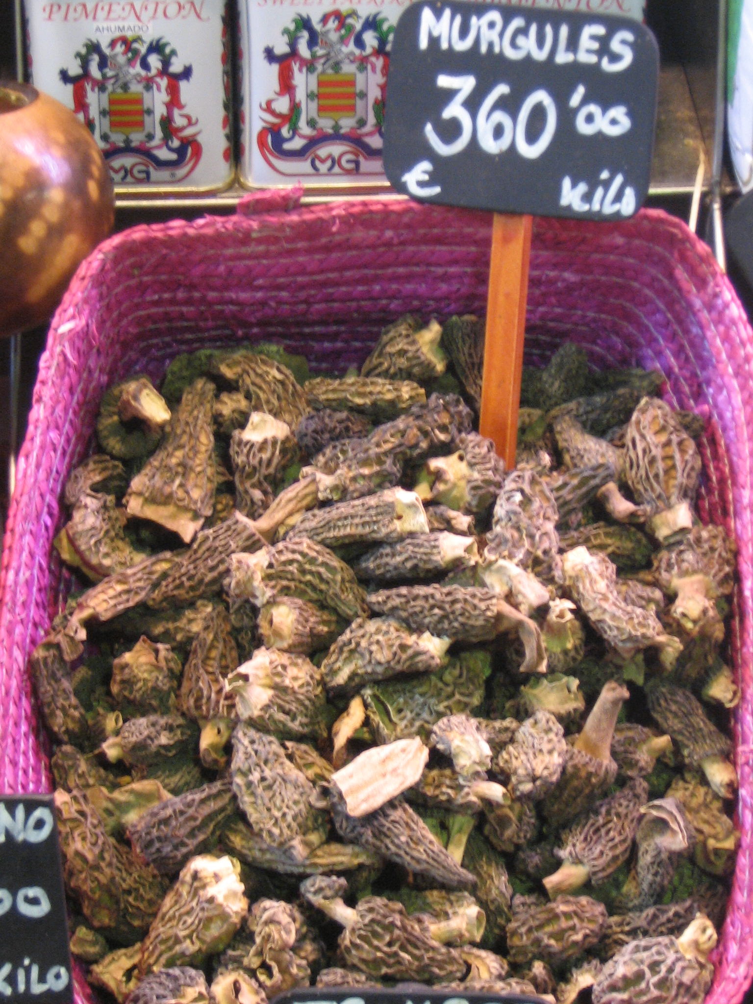 Mushrooms (Morchella sp.) for sale in La Boqueria market, Barcelona, Spain.